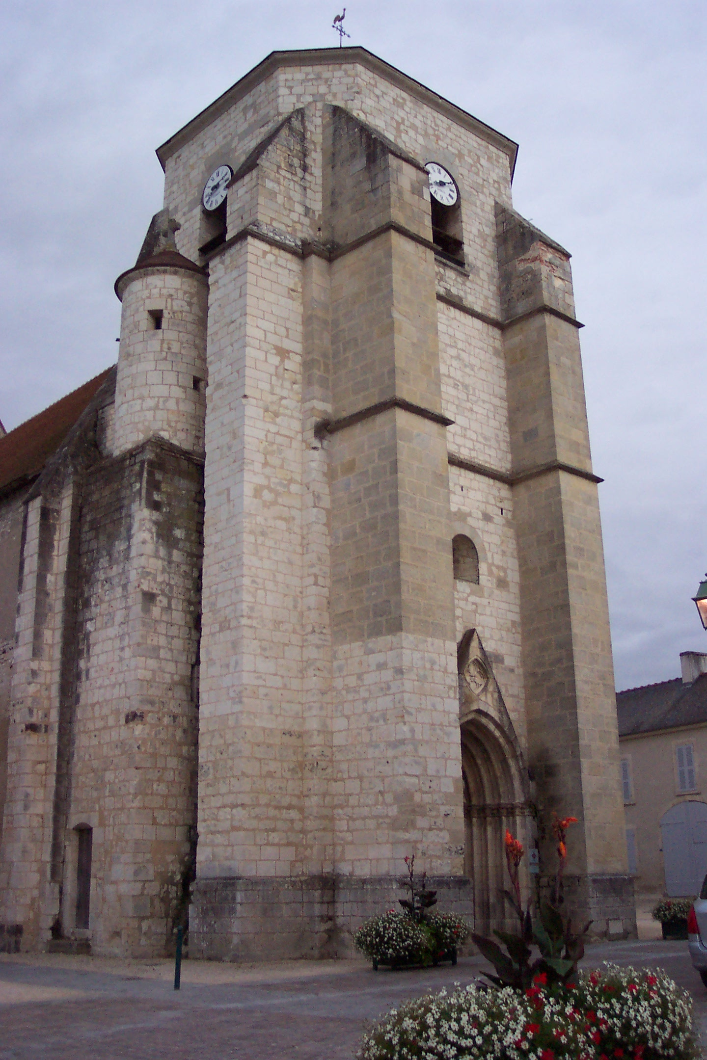 entrance tower of St Martin of Léré church ( Cher)